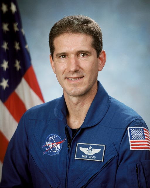 portrait astronaut Michael Good